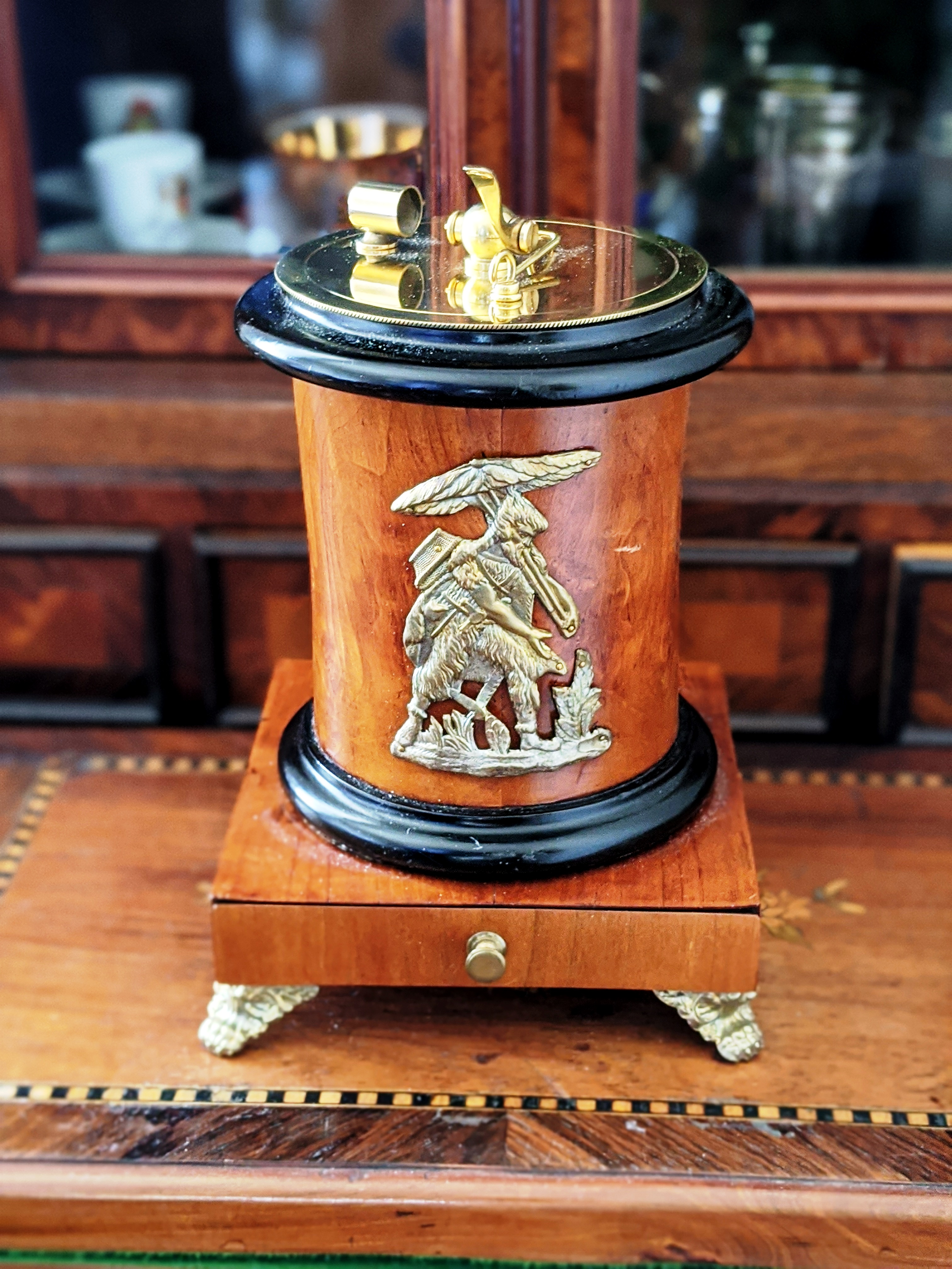 Doebereiner lighter with Robinson Crusoe brass application on the wooden body from the platinum lighter factory of Gottfried Piegler, Schleiz (about 1830)